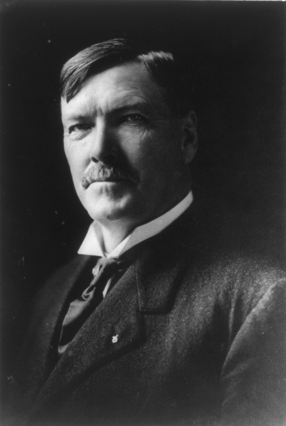 John M. C. Smith, former U.S. Congressman.